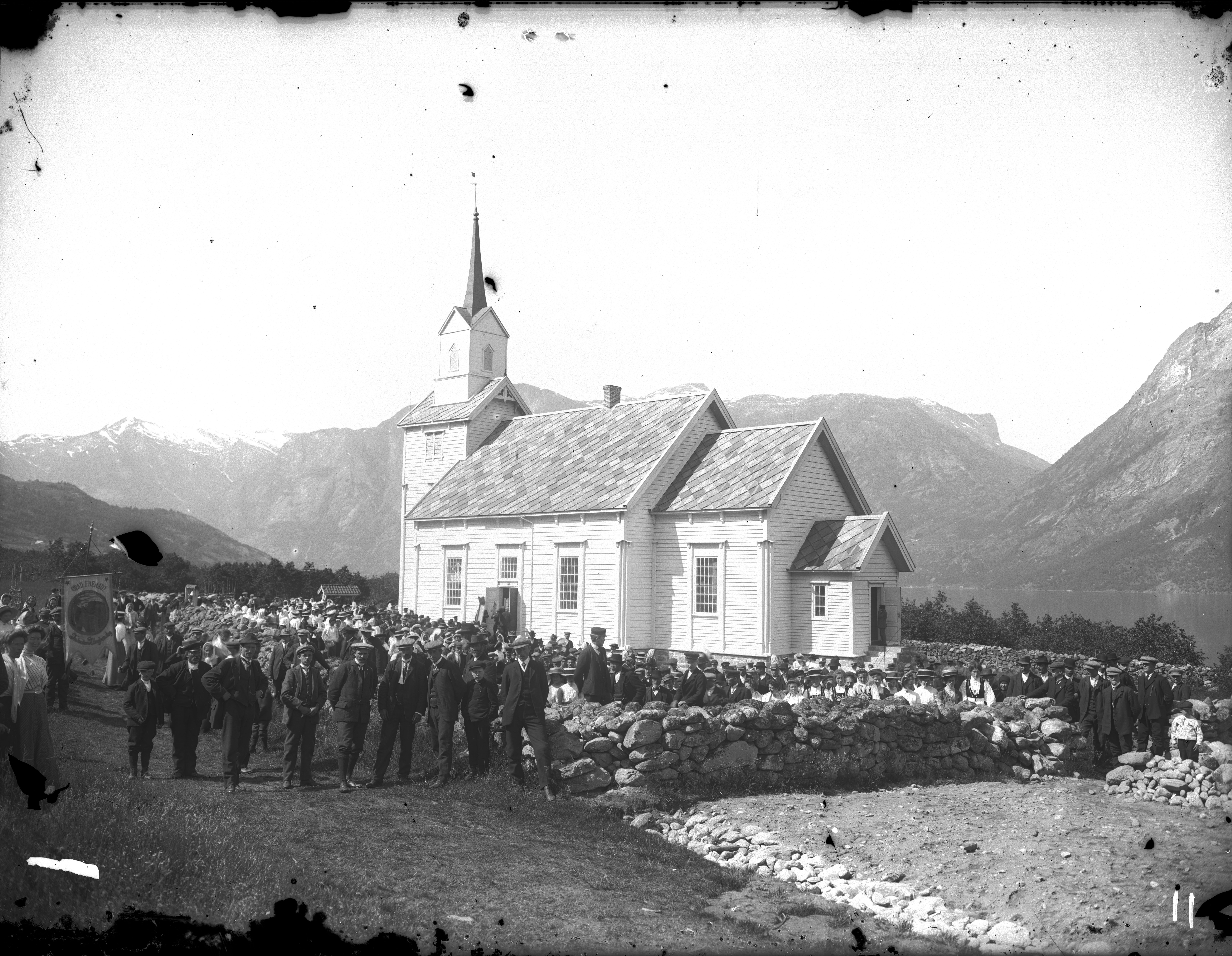 Identifier:SFFf-1995033.268550. Description: From Firdastemnet arranged by Oppstryn Ungdomslag in 1912. Youth clubs from the entire region of Nordfjord participated. To the left are participants from Innvik youth club - their banner reads "Opad, Fremad! Indviken Ungdomslag". The partcipants are gathered at Oppstryn church. Photographer: Knut Aaaning. Date: 23. june 1912. Medium: Glass plate negative. Extent: 18 x 24 cm.